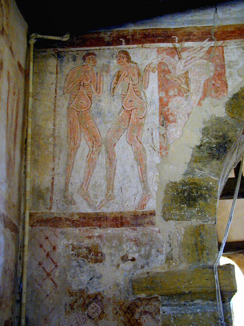 Church of England parish church of St Botolph, Hardham, England: painting on the west wall of the chancel showing a wyvern tempting Eve and Adam., 1050-1100.